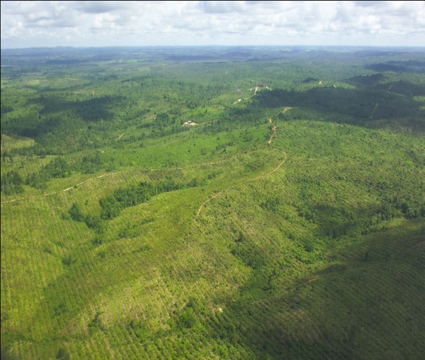 Reforestation activity in Imperata grassland area